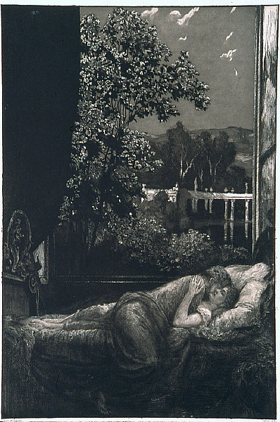 Night. Etching, engraving, and aquatint, state vi/vi. Image: 16 1/4 x 10 7/8 in. (41.3 x 27.6 cm); plate: 17 7/8 x 12 1/4 in. (45.4 x 31.1 cm); sheet: 24 3/4 x 17 5/8 in. (62.9 x 44.8 cm).